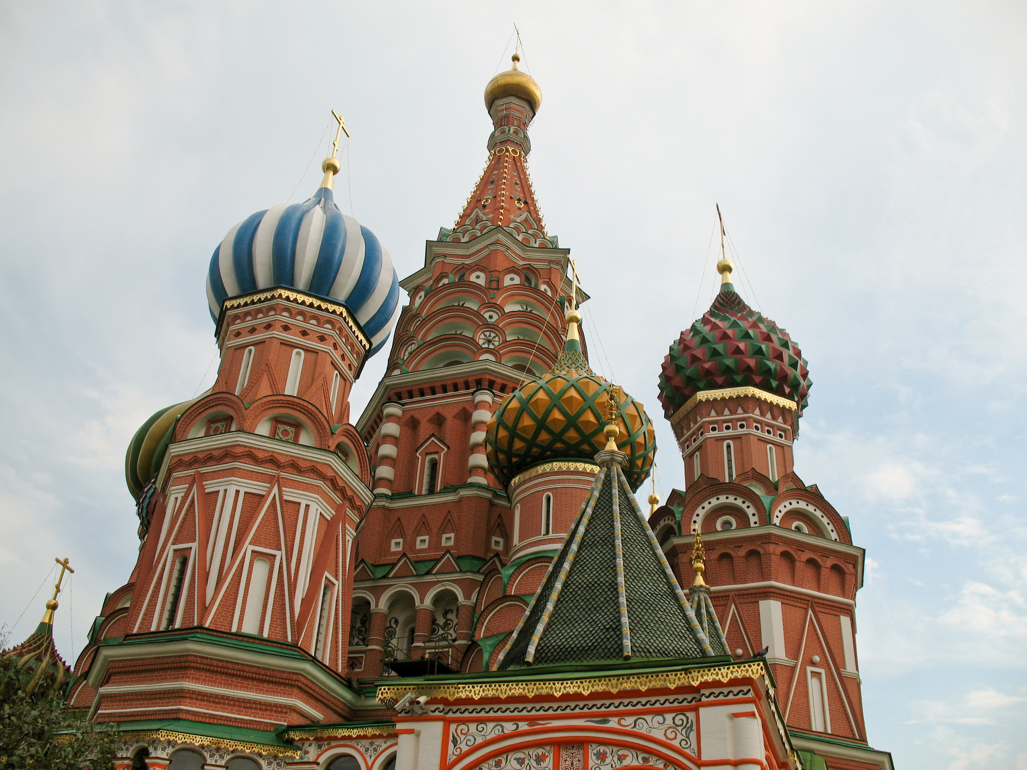 Saint Basil's Cathedral, Moscow, Russia